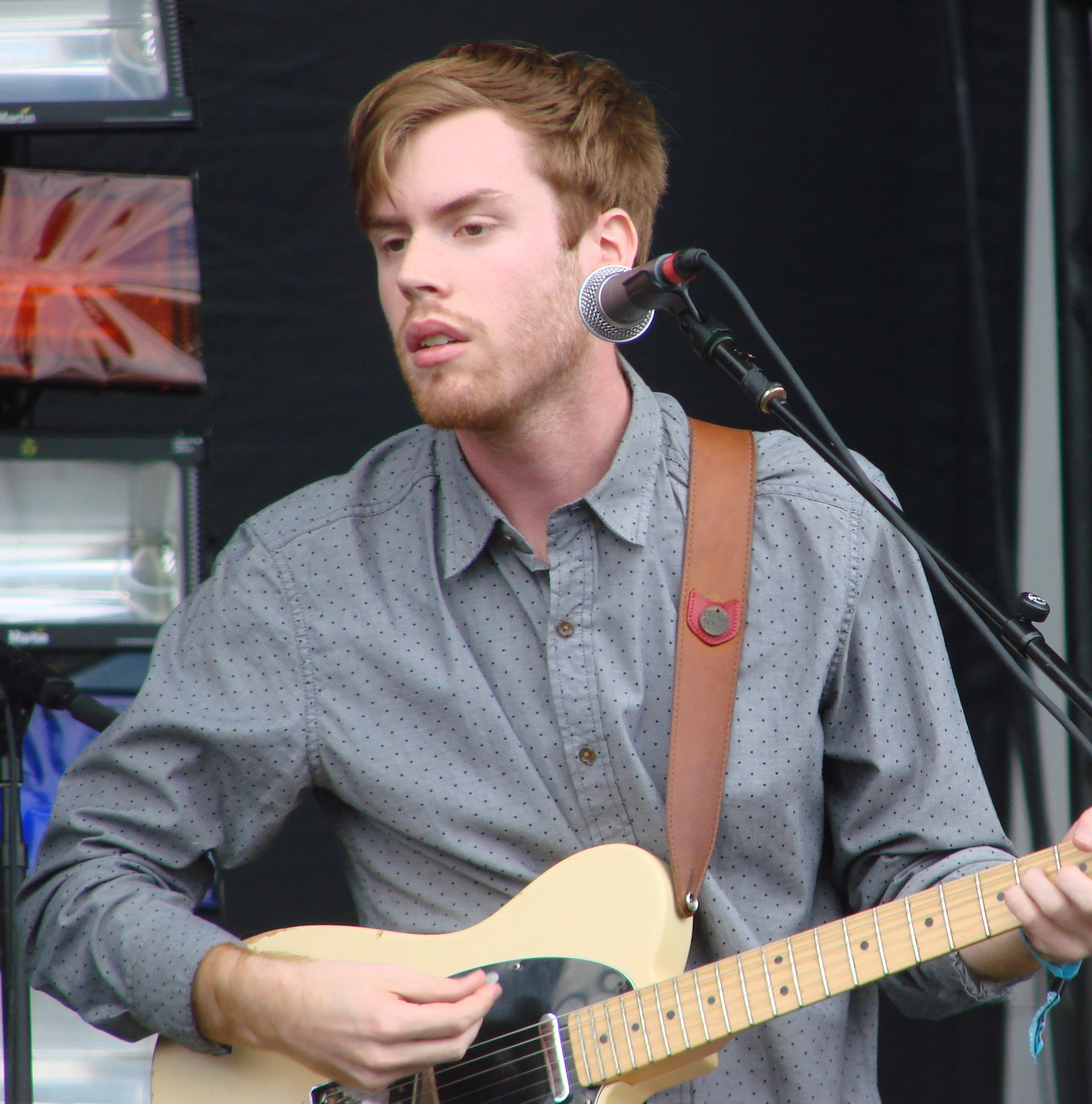 Jack Tatum of Wild Nothing performing at the 2013 Governors Ball Music Festival